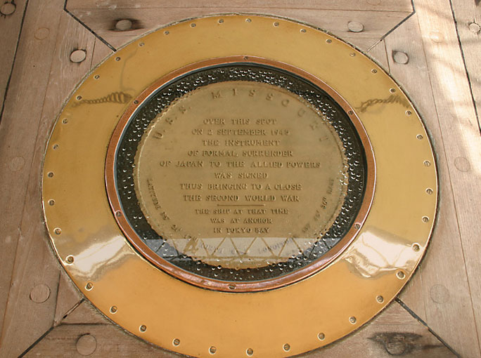 Rotated and cropped version of image with some of the glare toned down. Kelvin Kay user:kkmd